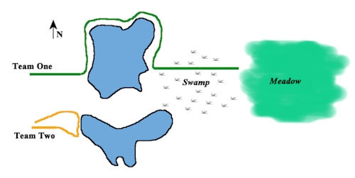 Map of the course taken by Team One and Team Two during Episode 7, "Deep Woods, Part 2," of the television program "Survive This." Both teams start out at relatively the same spot. Each team is told to head east, pass through the swamp, and arrive in the meadow. Neither team is told that a lake lies in their path. Team One navigates east correctly, but then mistakenly takes the long way (north) around the lake. Team One arrives at the meadow. Team Two drifts east-southeast, becomes lost, turns north, and mistakenly doubles back to its starting point. For episode description, see: "Season 1 Episodes." . No date. Accessed 2009-07-27.